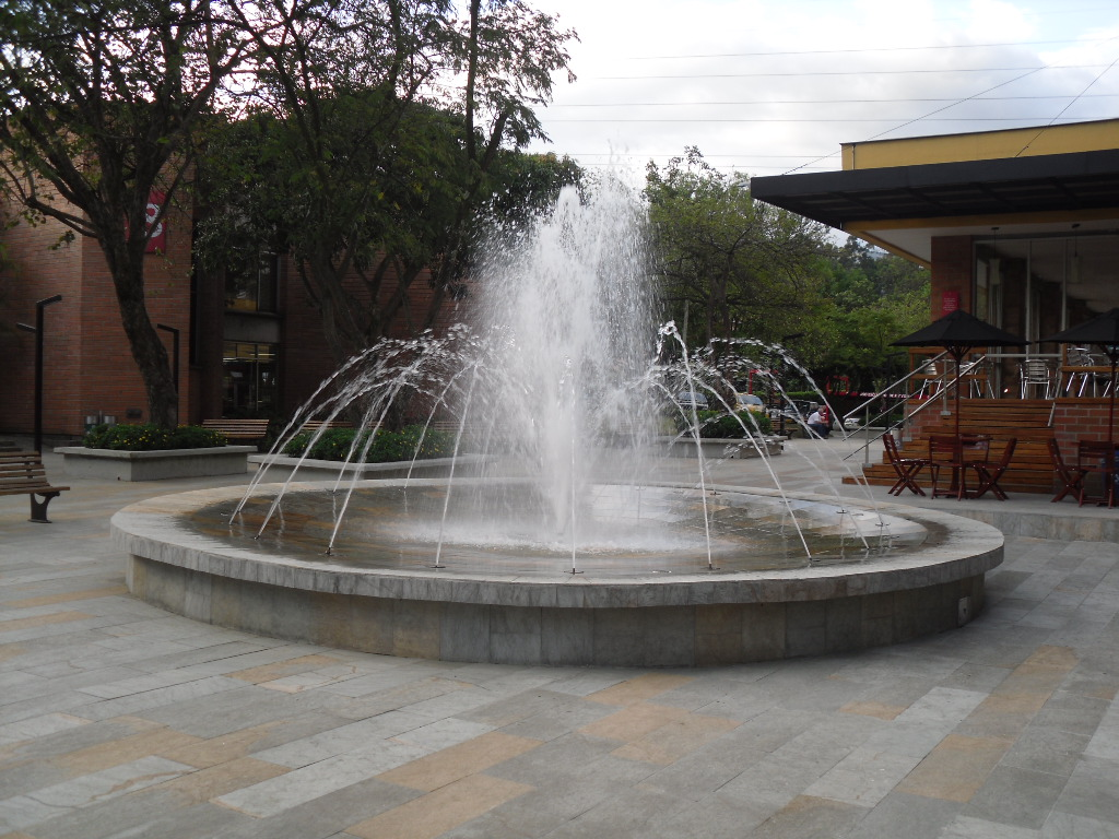 Fuente UdeM